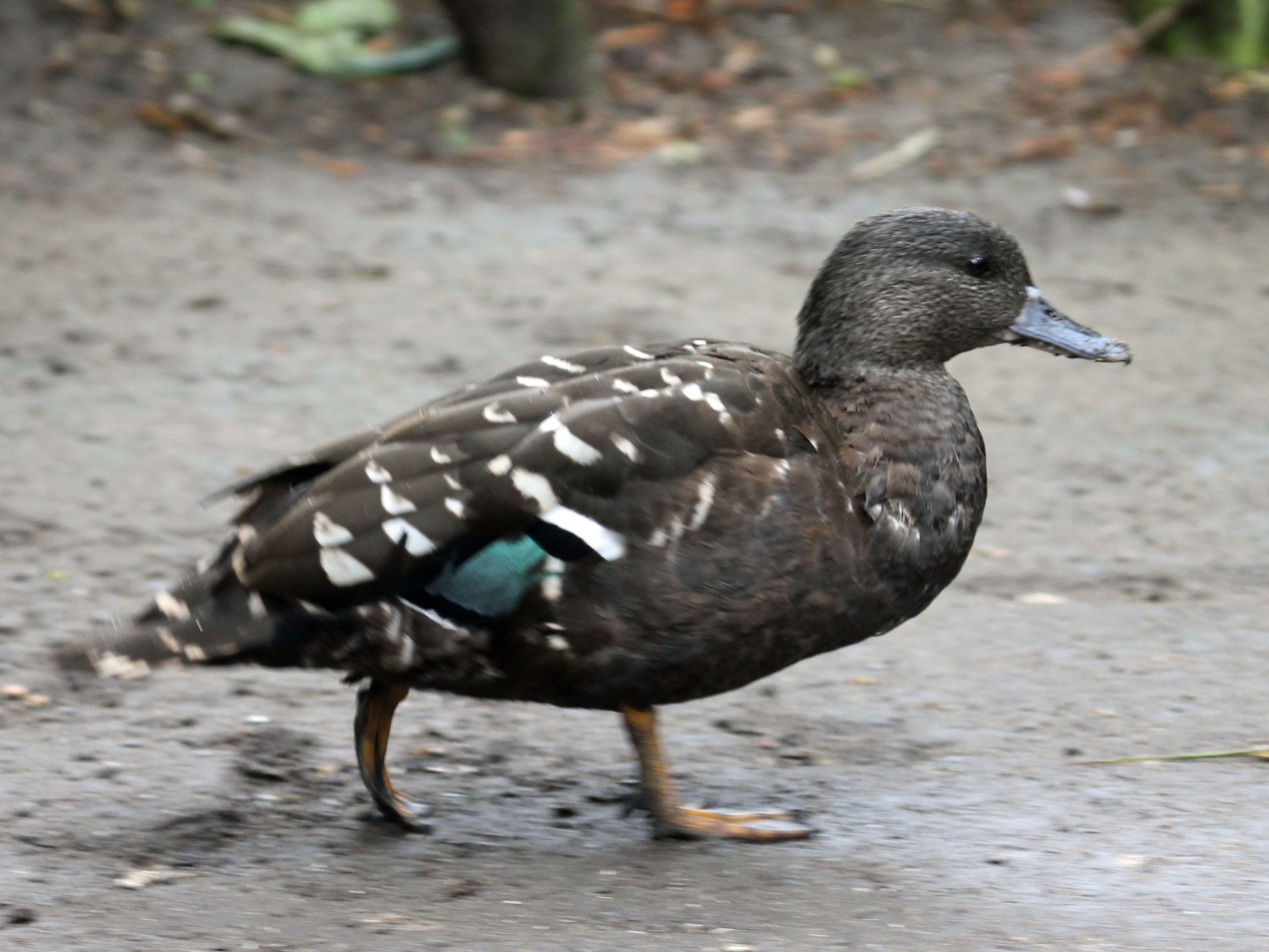 African Black Duck (Anas sparsa) at World of Birds Wildlife Sanctuary (an aviary) in Cape Town, South Africa